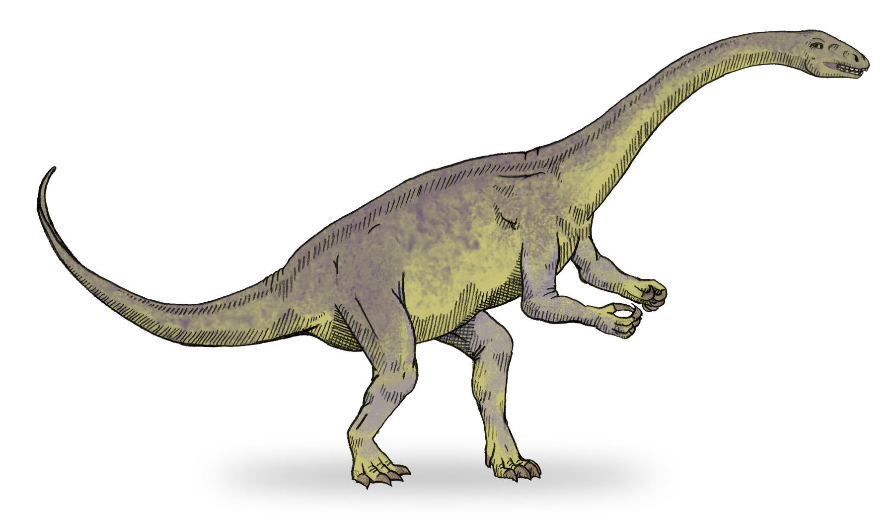 diagram by me user debivort, 1.07